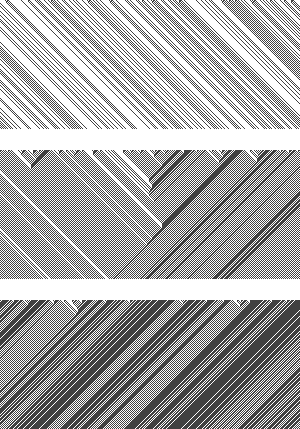 The Rule 184 cellular automaton, run for 128 steps each from three random initial confgurations with density 25%, 50%, and 75%.